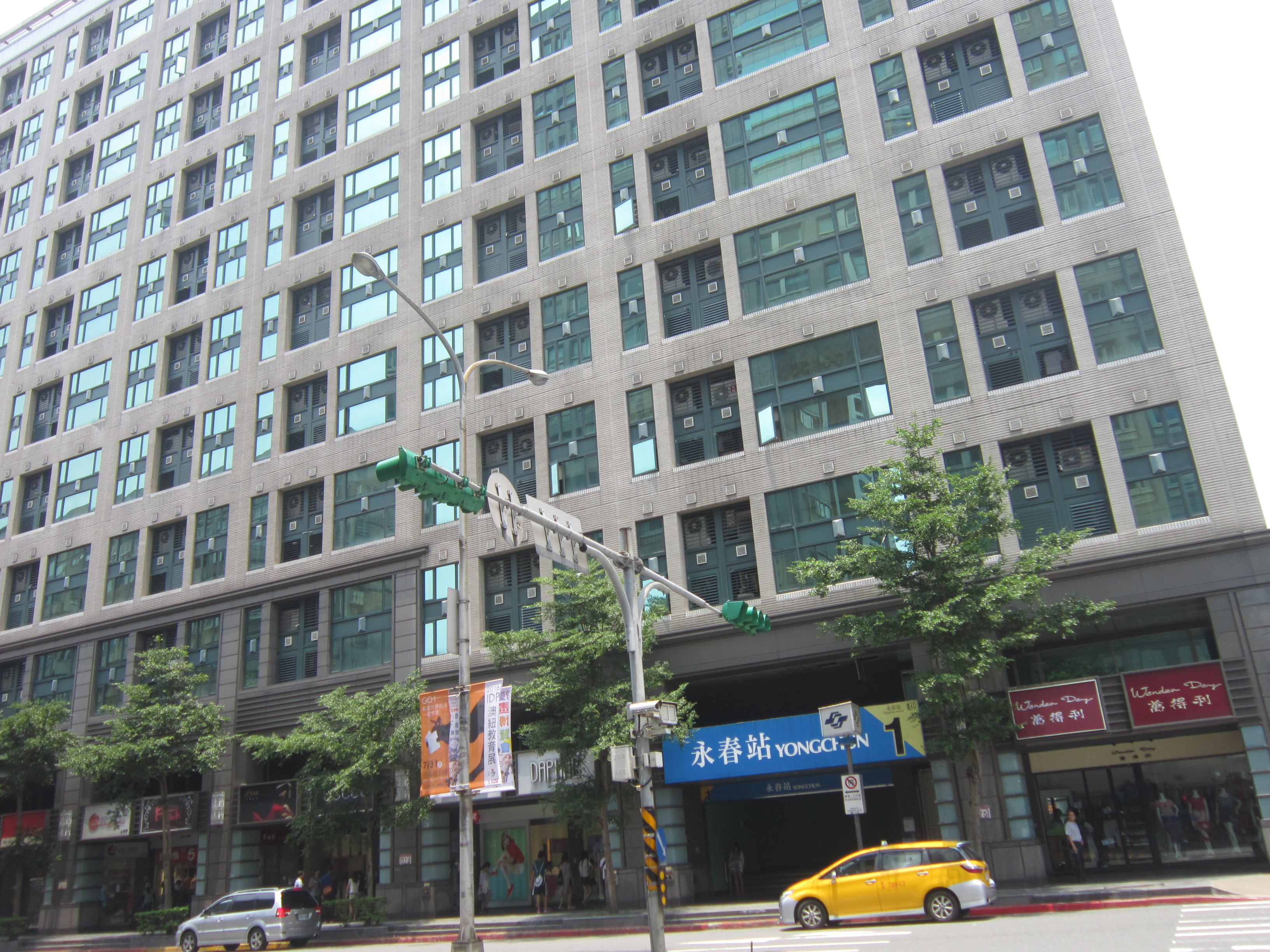 Yongchun_Station_Exit_1